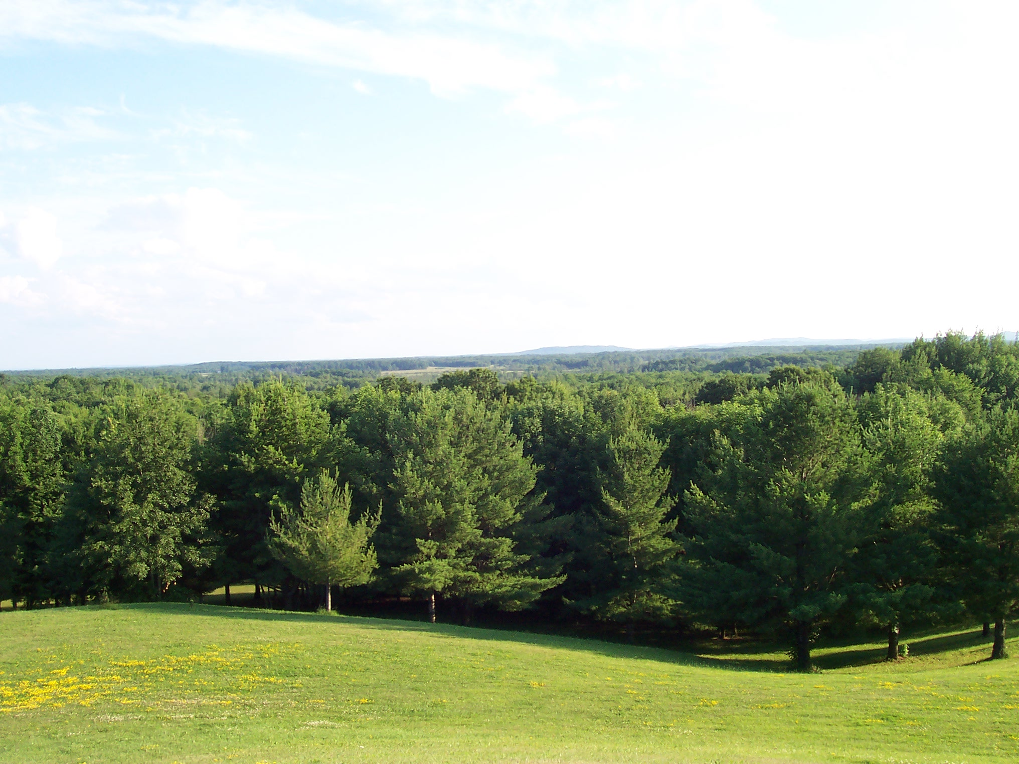 View of The Highground, Wisconsin